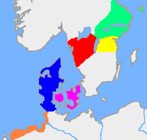 An approximation of the central regions of the tribes mentioned in Beowulf. The red area is Västergötland (the core region of Geatland), the yellow area is the territory ruled by the Wulfings (though some historians have assigned them to Pomerania or England), the pink area is Scylding Danish territory, and blue is the Jutish kingdom(s). The green area is the land of the Swedes, while the orange area belongs to Frisians. For a more detailed discussion on the fragmented political situation of Scandinavia during the 6th century, see Scandza